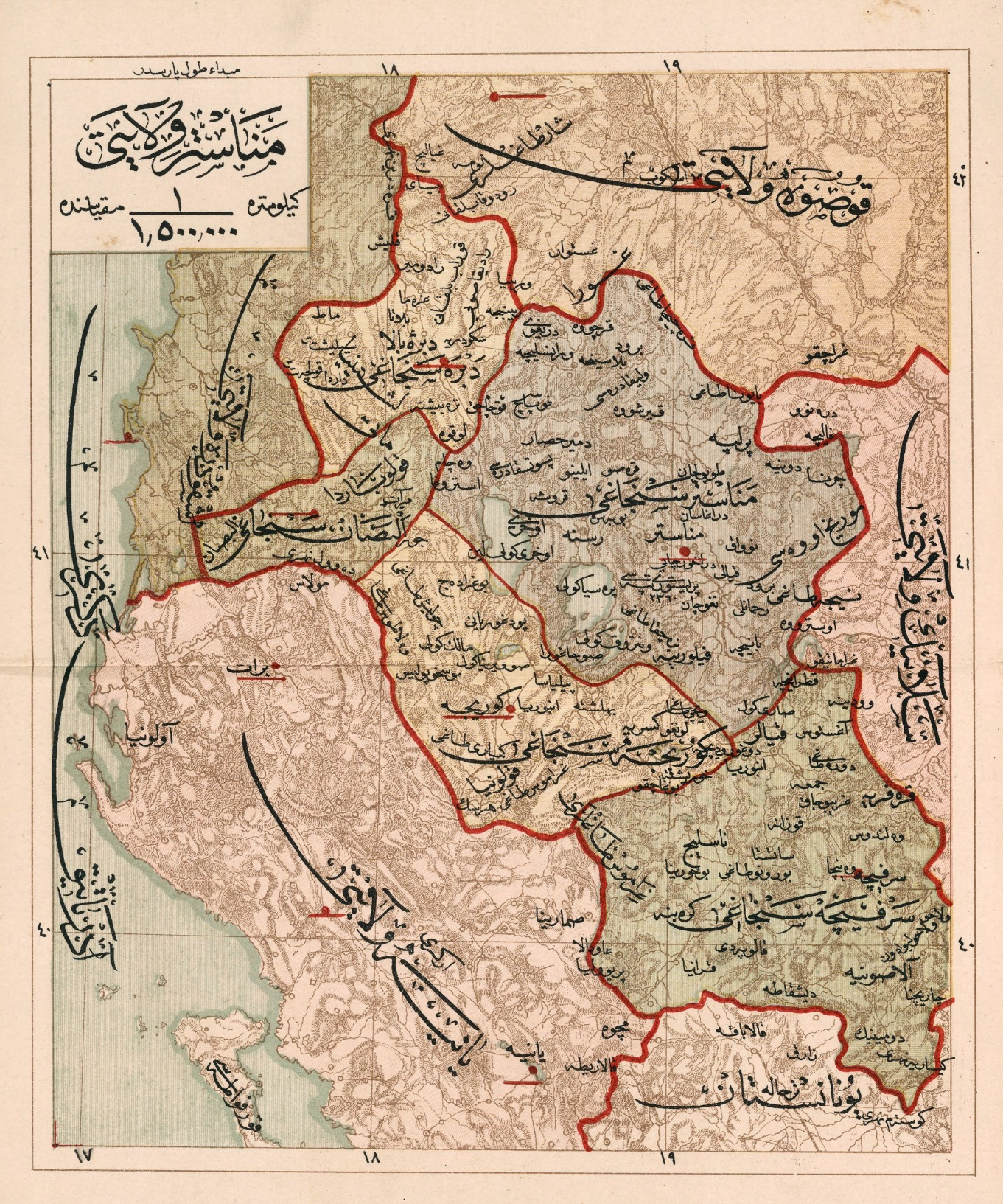 Monastir Vilayet — Memalik-i Mahruse-i Şahaneye Mahsus Mukemmel ve Mufassal Atlas (1907); it was divided in five sanjaks: Manastir, Servia, Debar, Elbasan, and Korce.